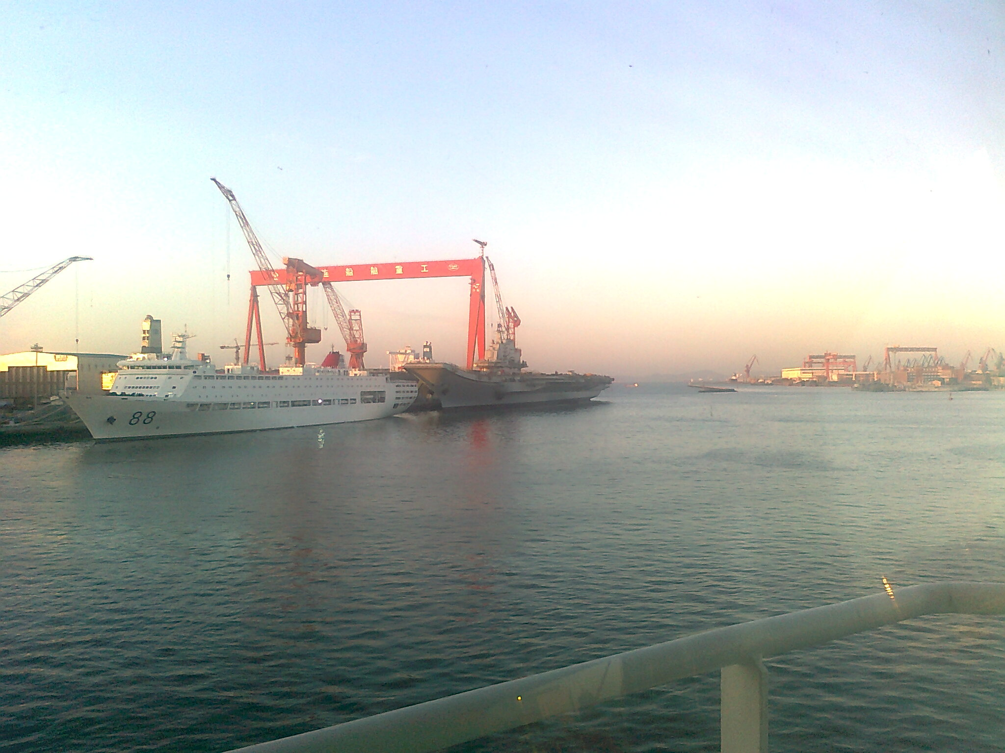 Ex-Varyag undergoing refit in Dalian Shipbuilding Industry Company (2011), which later became China's first aircraft carrier Liaoning.